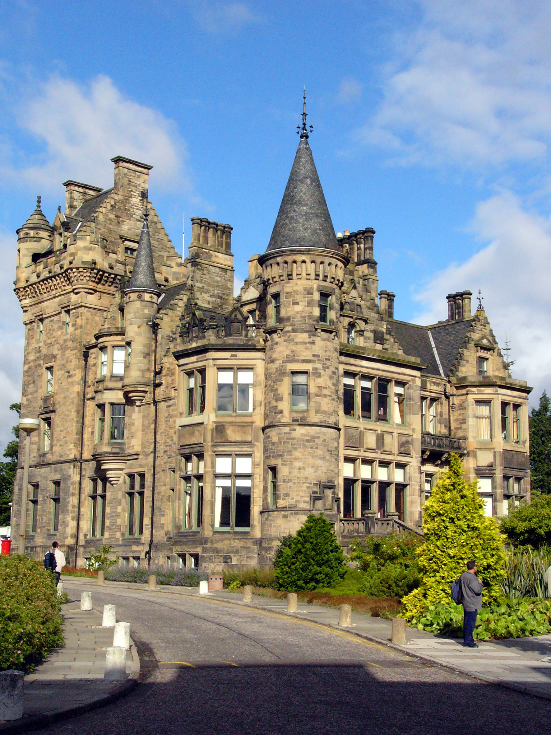 St. Leonard's Hall in Pollock Halls of Residence, Edinburgh